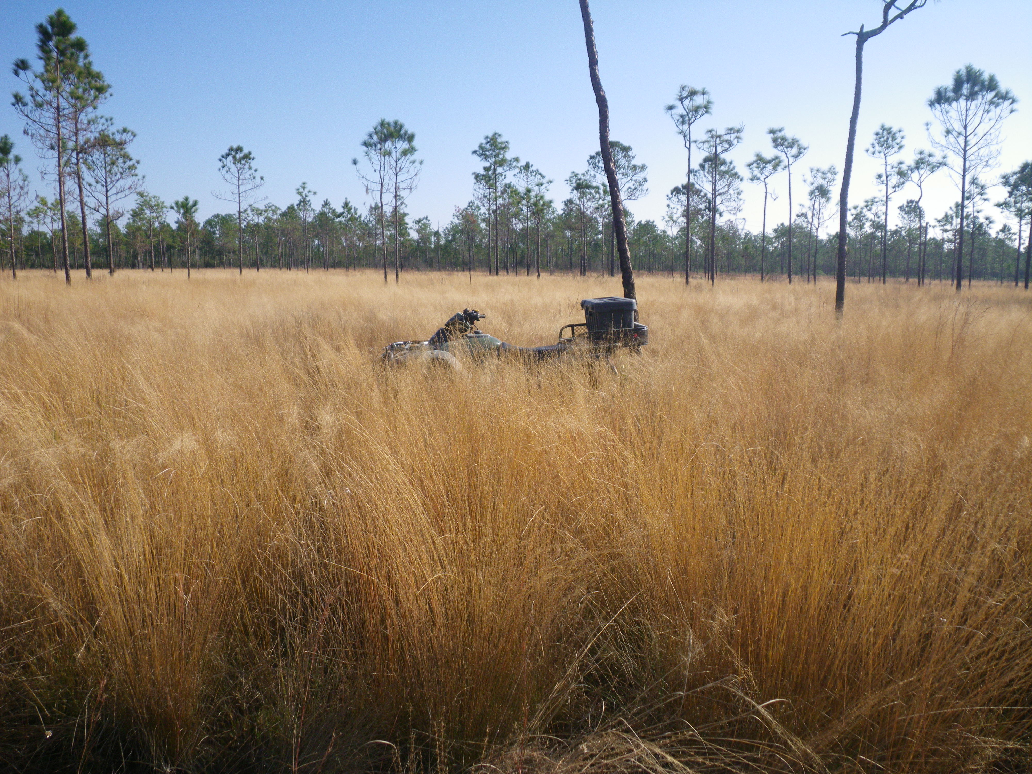 Prescribed fire helps remove old decadent clumps of grass and shrubs in wire grass prairies, this photo shows the new wiregrass growth after a prescribed fire only a few months before in the Summer of 2012 at Grand Bay NWR. Photo: USFW